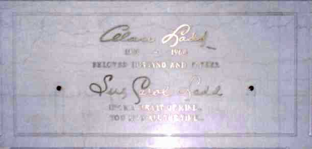 Mausoleum of Alan and Sue Ladd.